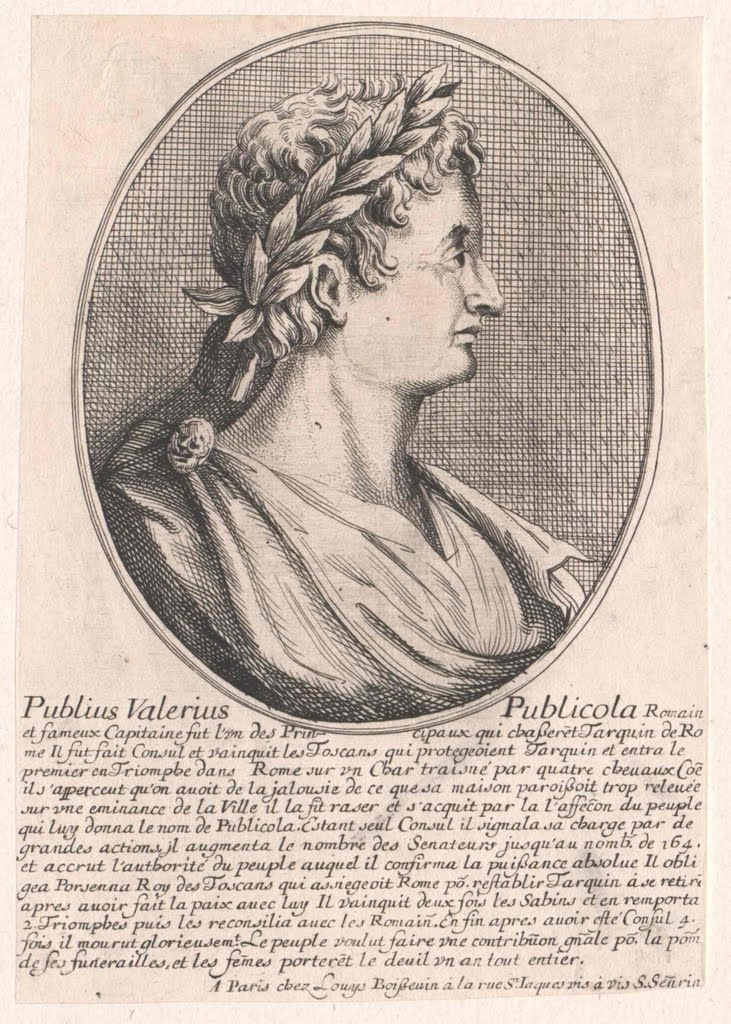 A drawing of Publius Valerius Publicola